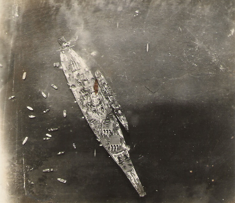 Aerial view of the U.S. Navy battleship USS Missouri (BB-63), taken during the Japanese Surrender Ceremony on 2 September 1945. The photo was taken from U.S. Army Air Forces Boeing B-29 Superfortress. The Fletcher-class destroyer alongside is probalby either USS Nicholas (DD-449) or USS Taylor (DD-468) from Destroyer Squadron 21, used to transport the attendees of the ceremony.